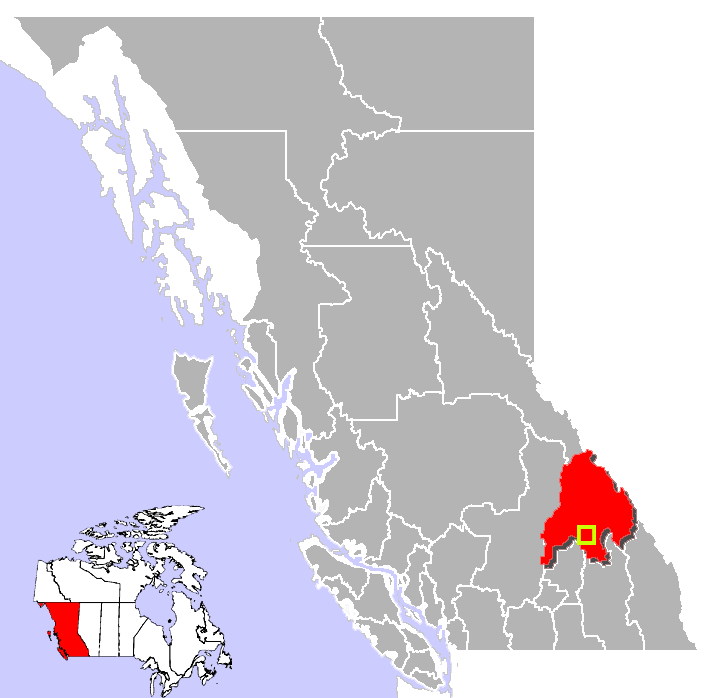 Revelstoke, British Columbia location.